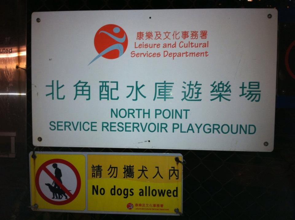 北角配水庫遊樂場 North Point Service Reservoir Playground, Tin Hau Temple Road, North Point Mid-Levels, Hong Kong